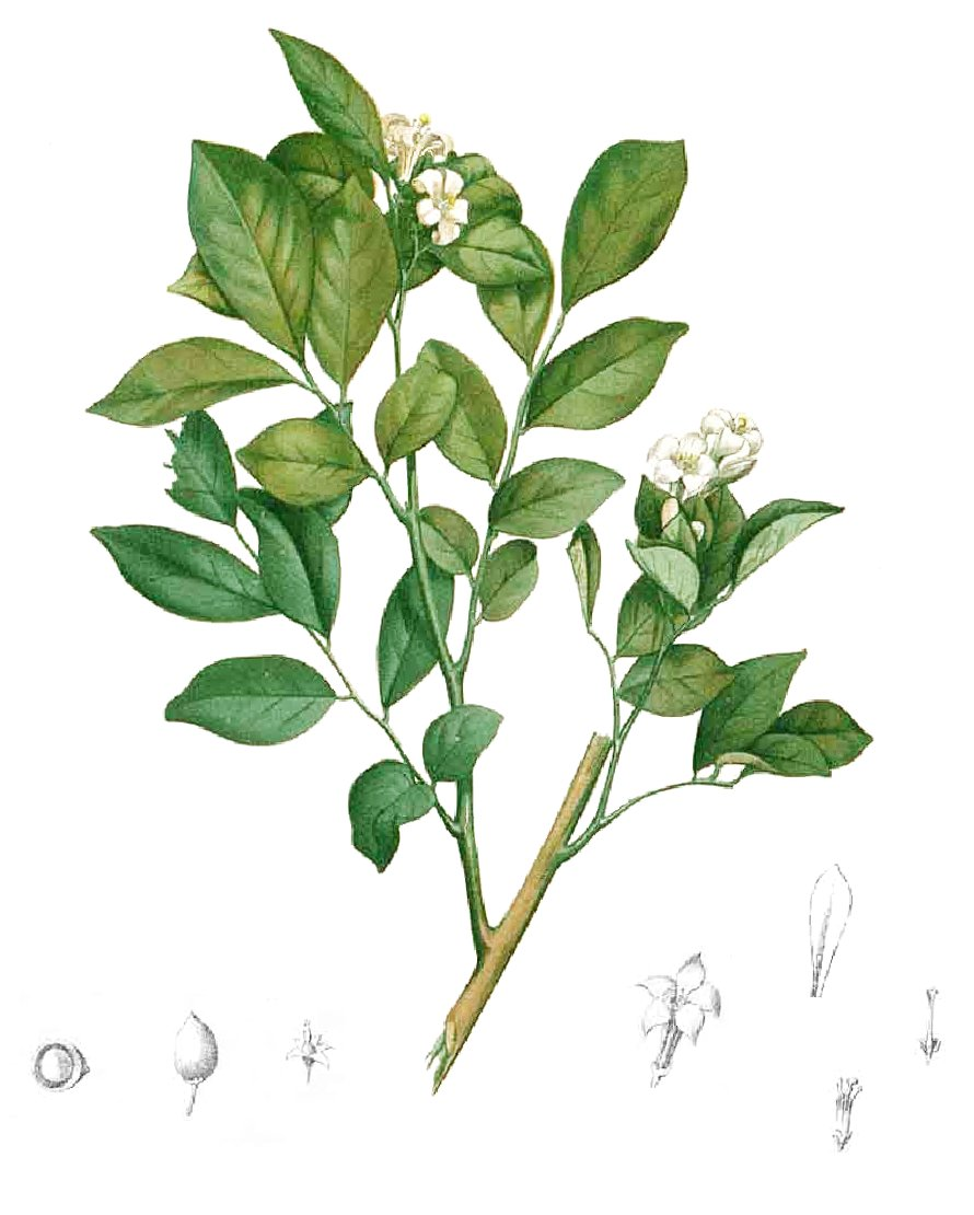 Plate from book